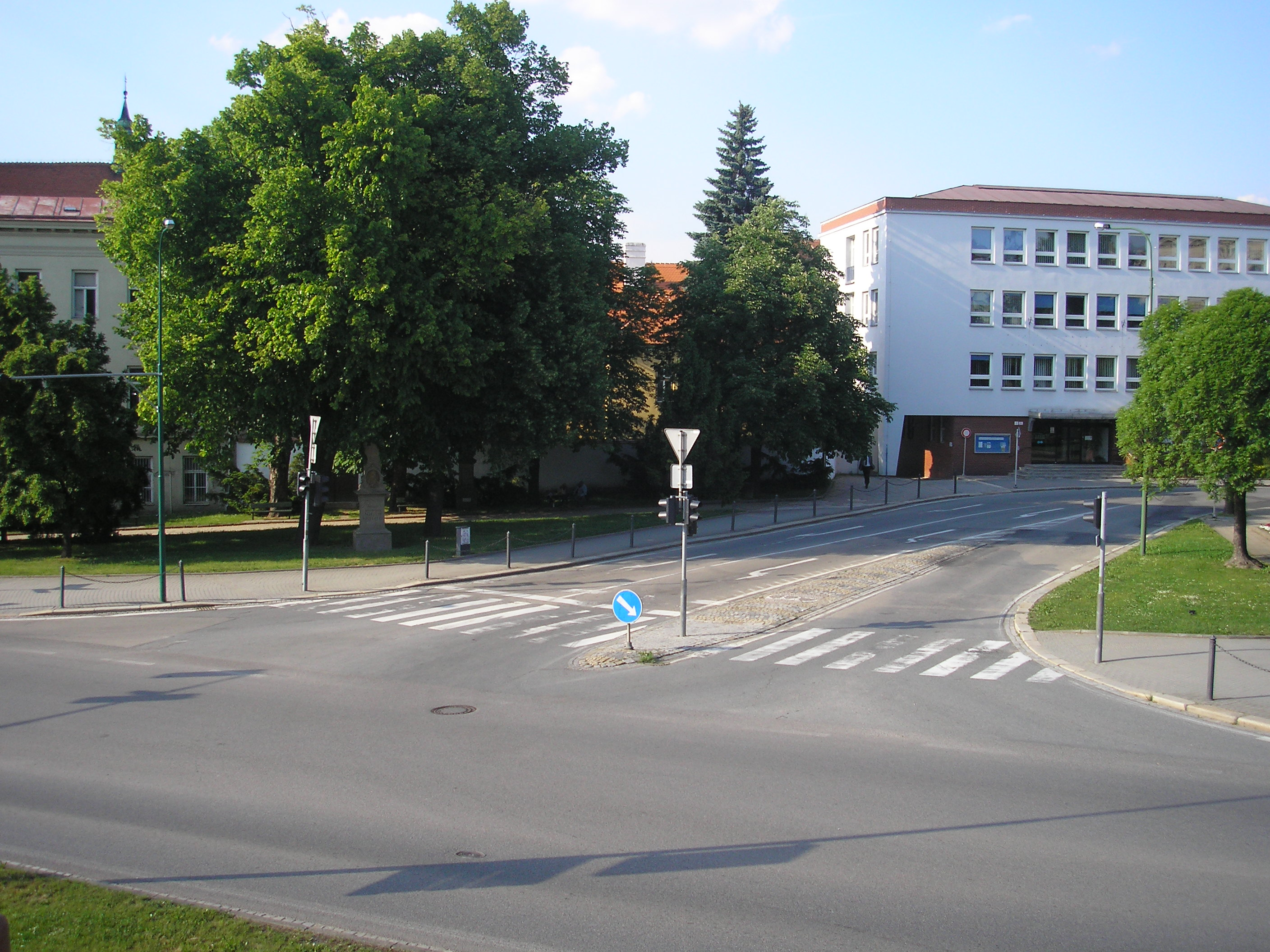 Masarykovo square in Třebíč